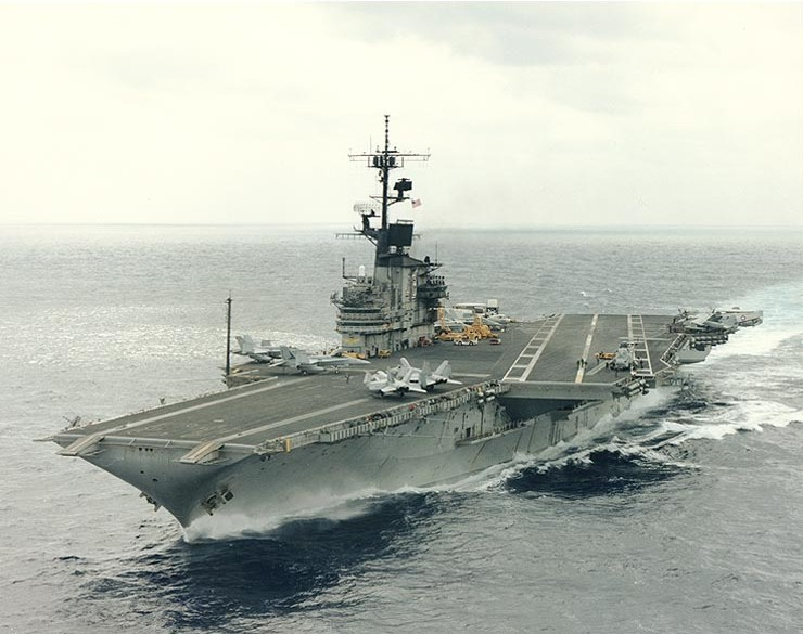 The U.S. Navy aircraft carrier USS Coral Sea (CV-43) making over 30 knots during a high speed run on 1 March 1989. Planes of Carrier Air Wing 13 (CVW-13) can be seen on deck. The "Ageless Warrior", as the Coral Sea was called, made her last deployment from 31 May to 30 September 1989 and was decommissioned on 26 April 1990.